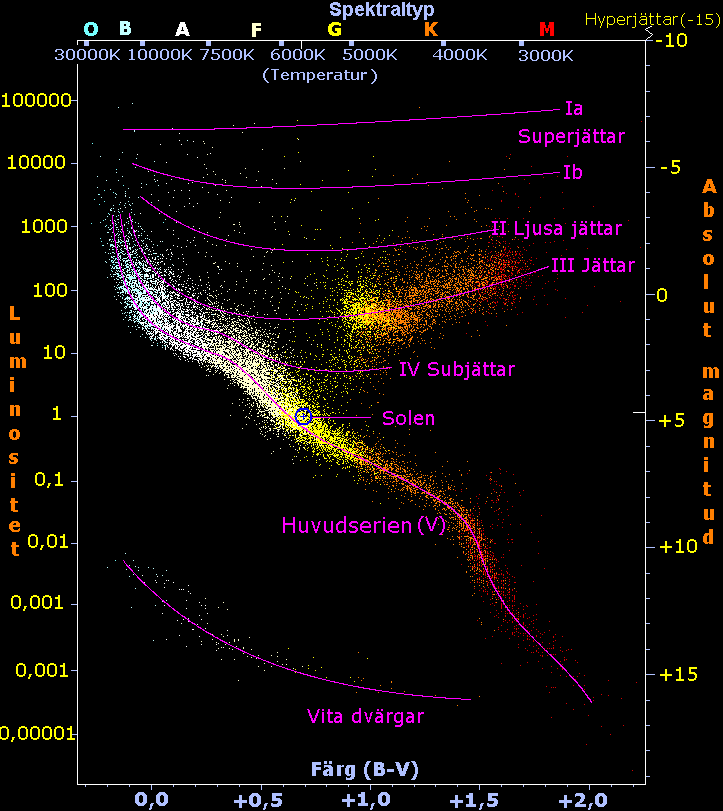 Swedish text version of a Hertzsprung-Russell diagram. A plot of luminosity (absolute magnitude) against the colour of the stars ranging from the high-temperature blue-white stars on the left side of the diagram to the low temperature red stars on the right side. Converted to png and compressed with pngcrush.